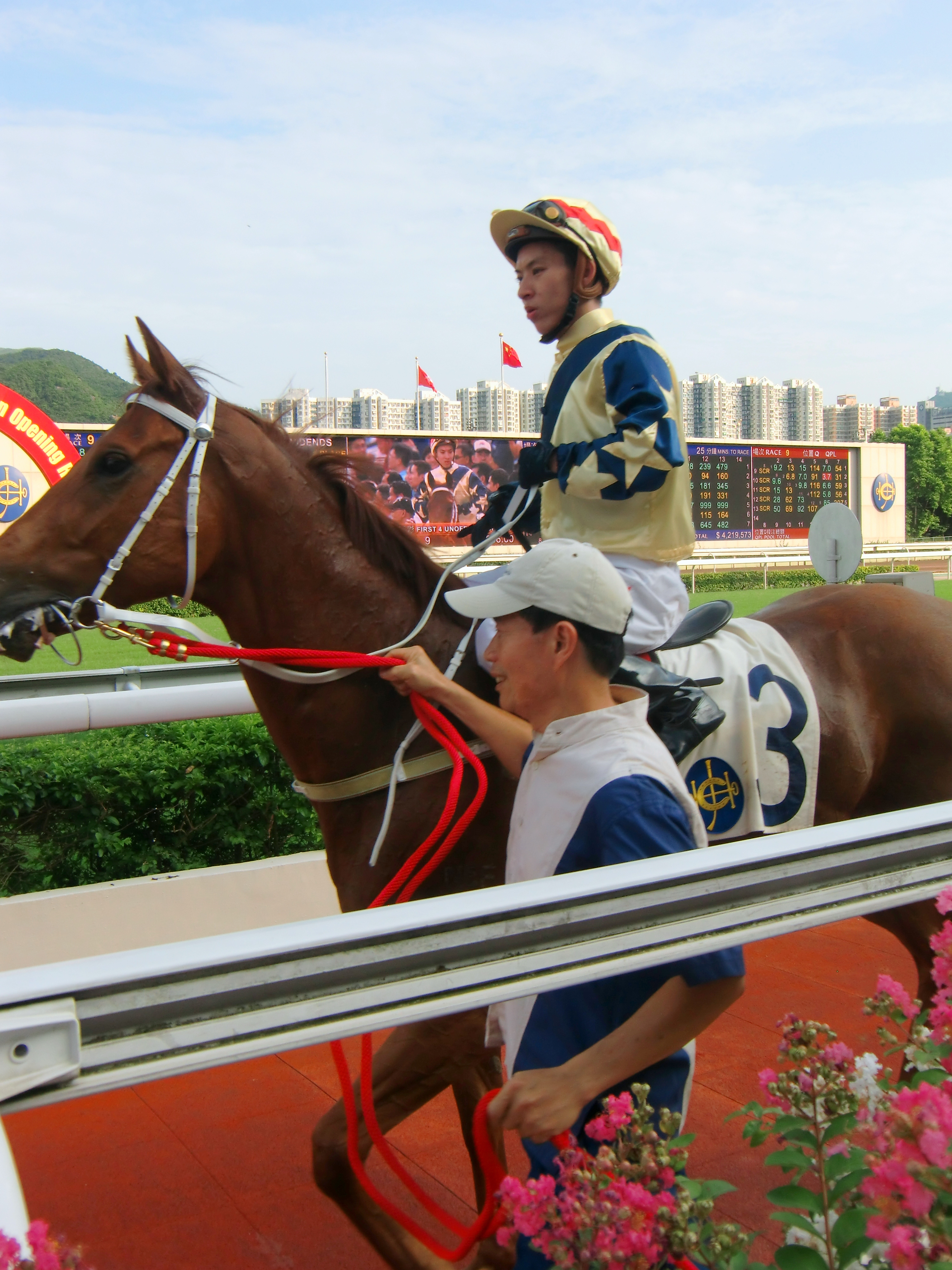 Matthew Chadwick after win with Good Words in Race 8